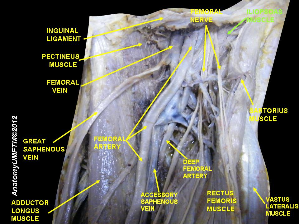 Anatomical dissections